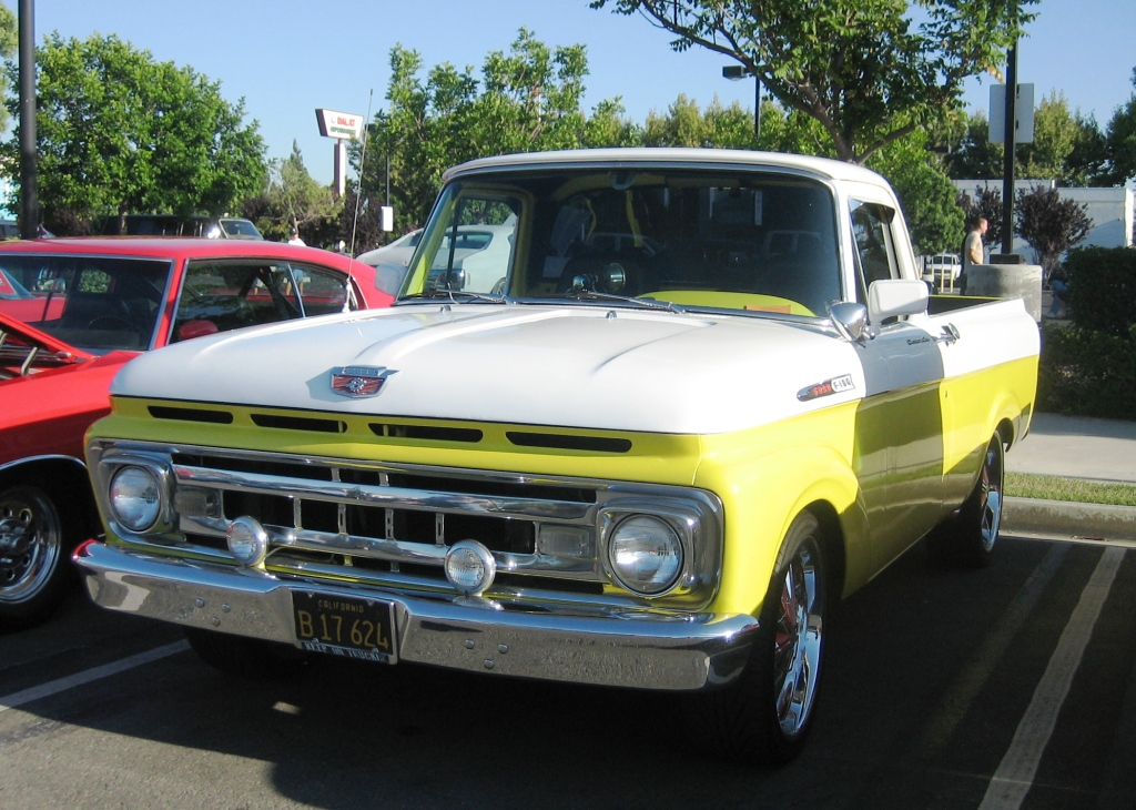 1961 Ford F-100